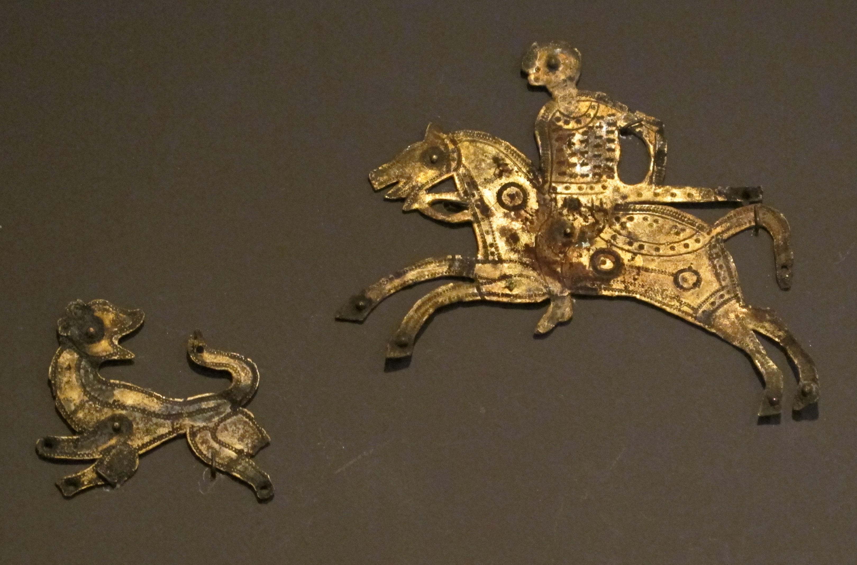 Early history collection of the Historisches Museum Bern